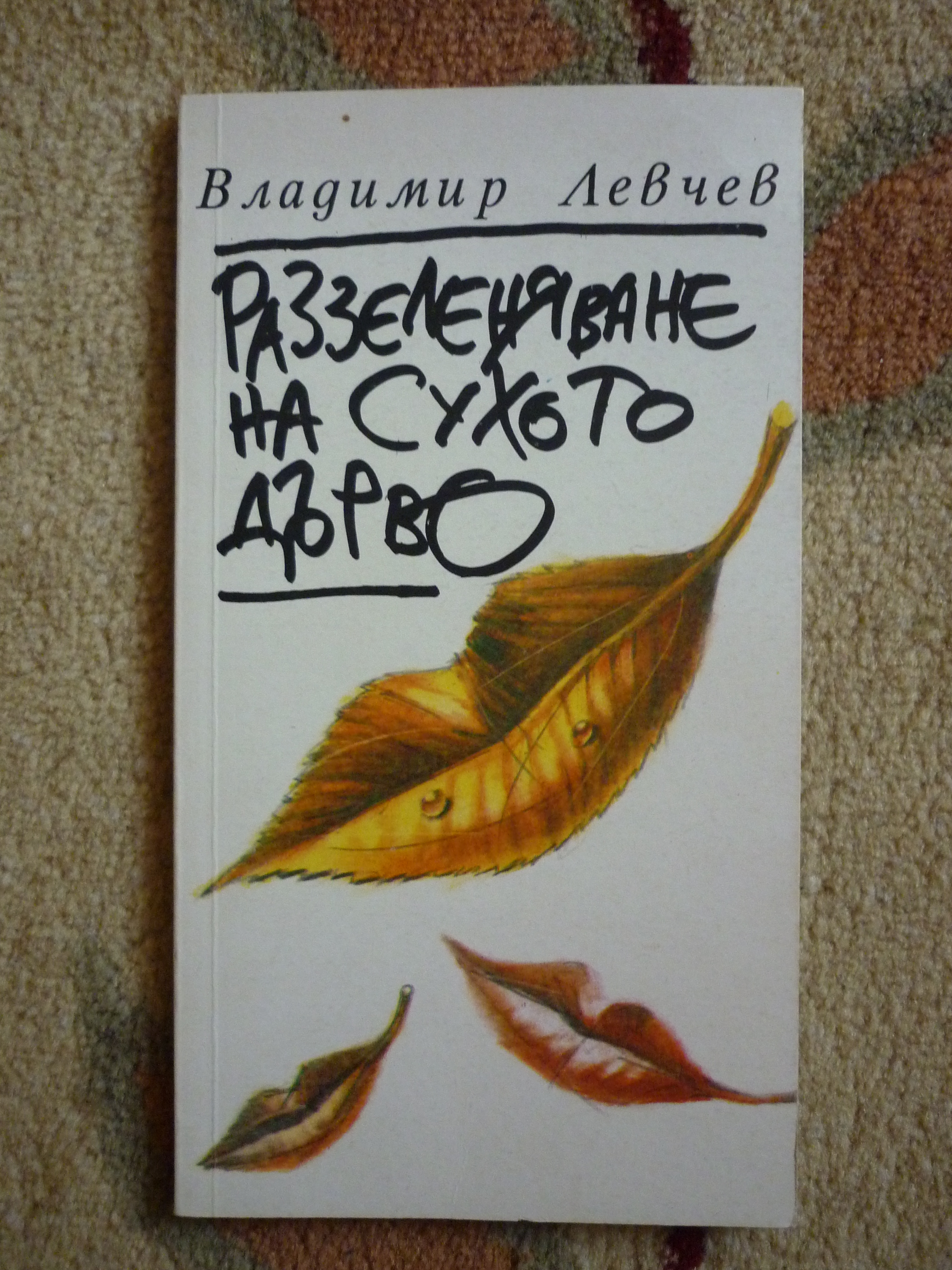 „Virescent dry tree“, cover of the first Bulgarian edition, 1993.